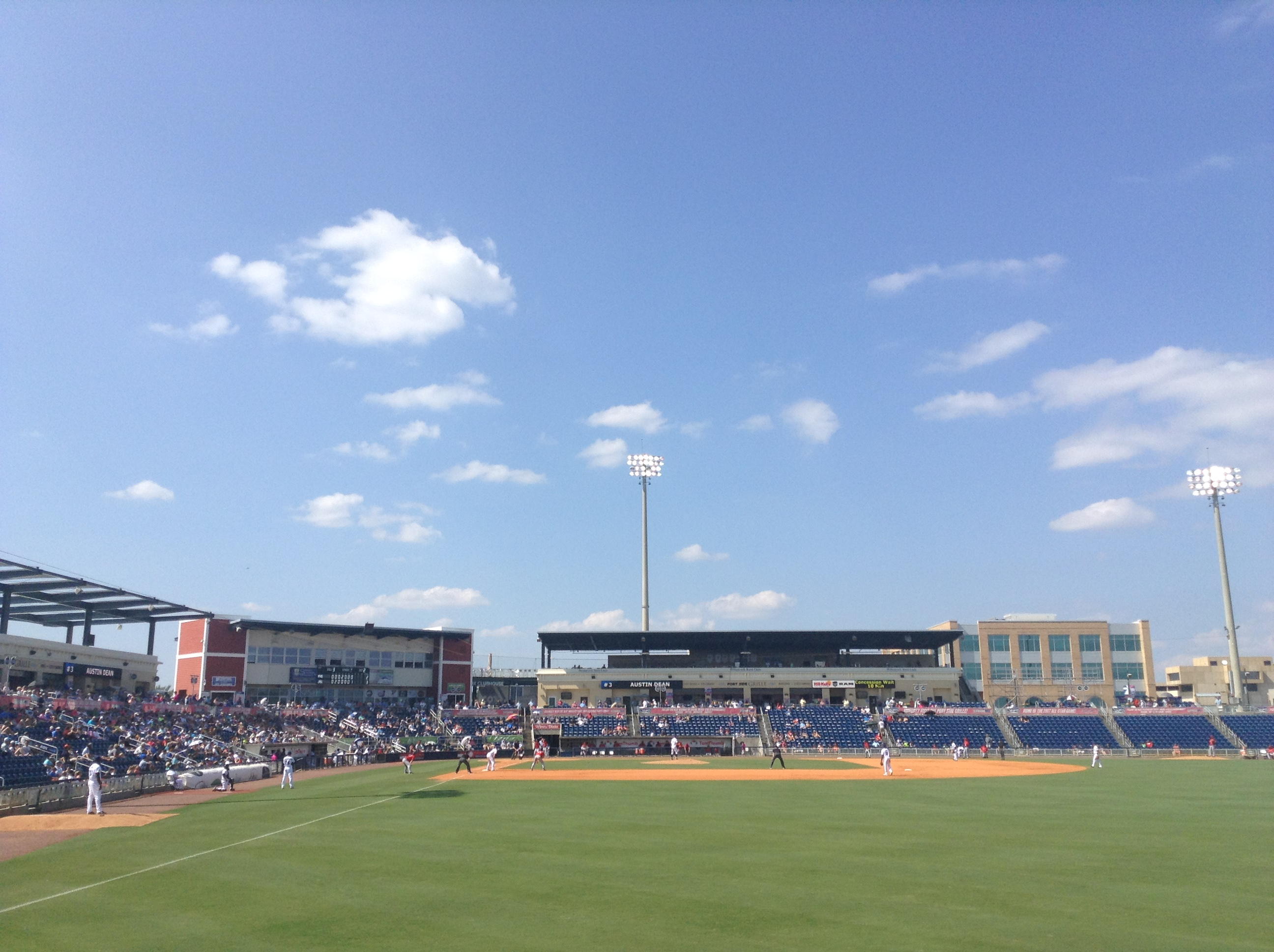 Photo of Admiral Mason Park, at Maritime Park, Pensacola, Florida